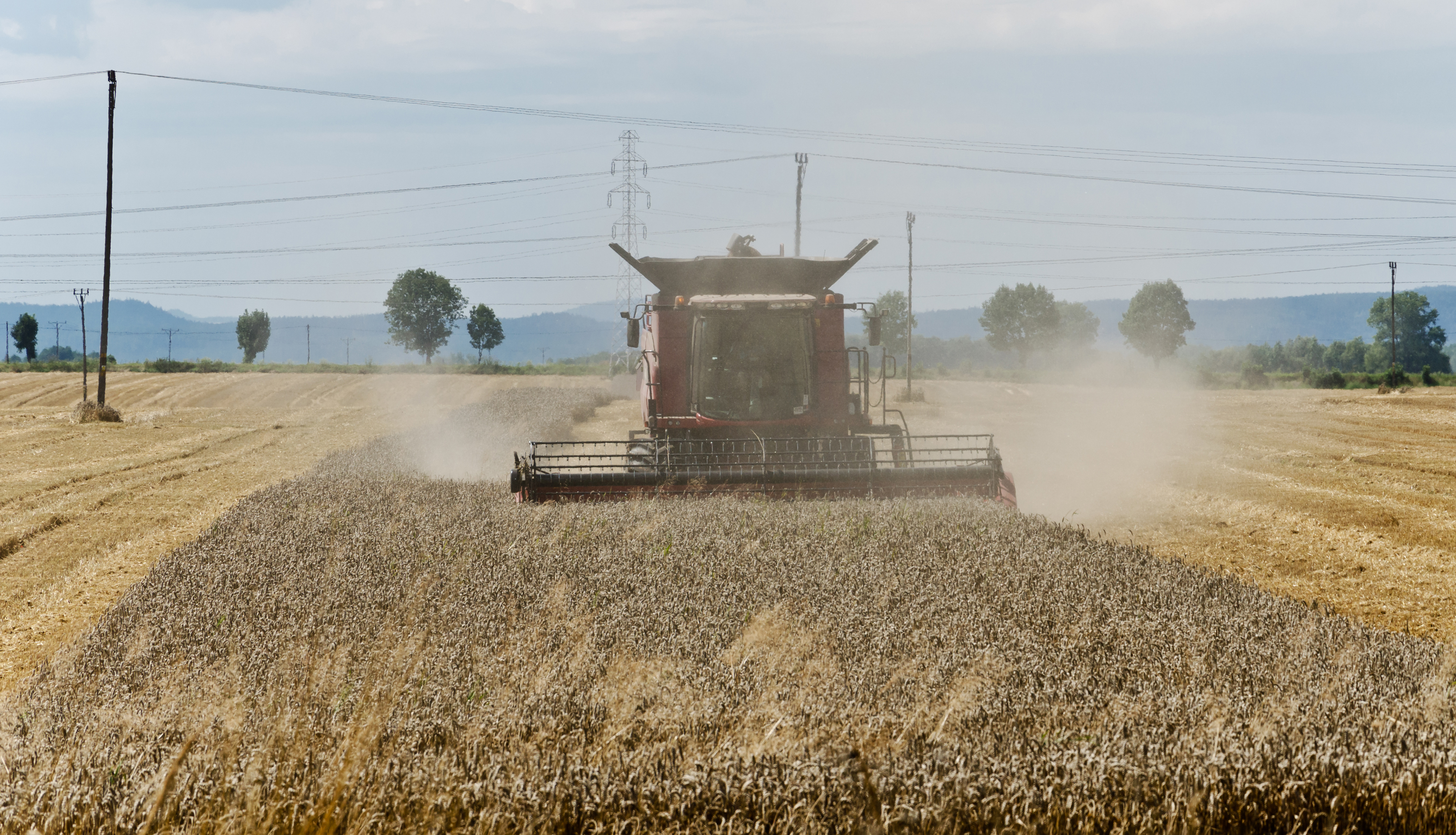 Kłodzko, harvest in Kościelniki district